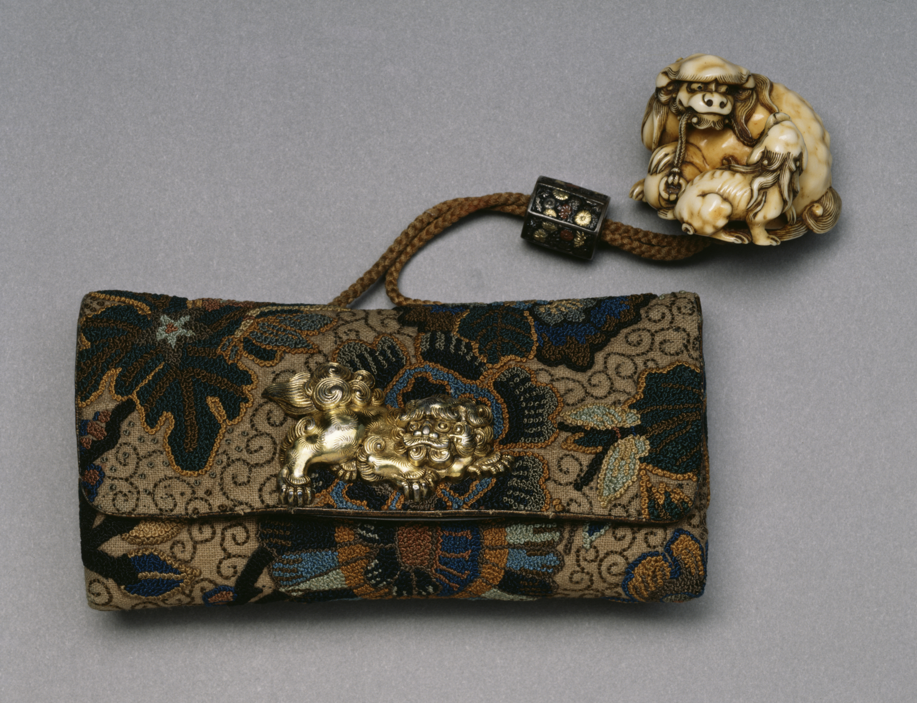 Netsuke by Gyokuunsai.